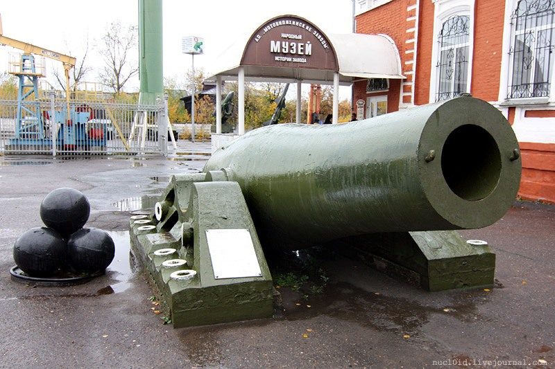 20-inch cast-iron naval gun for armament of turret naval ships, including frigates, "Cruiser" and "Minin". Motovilikha Plants museum in Perm Russia.